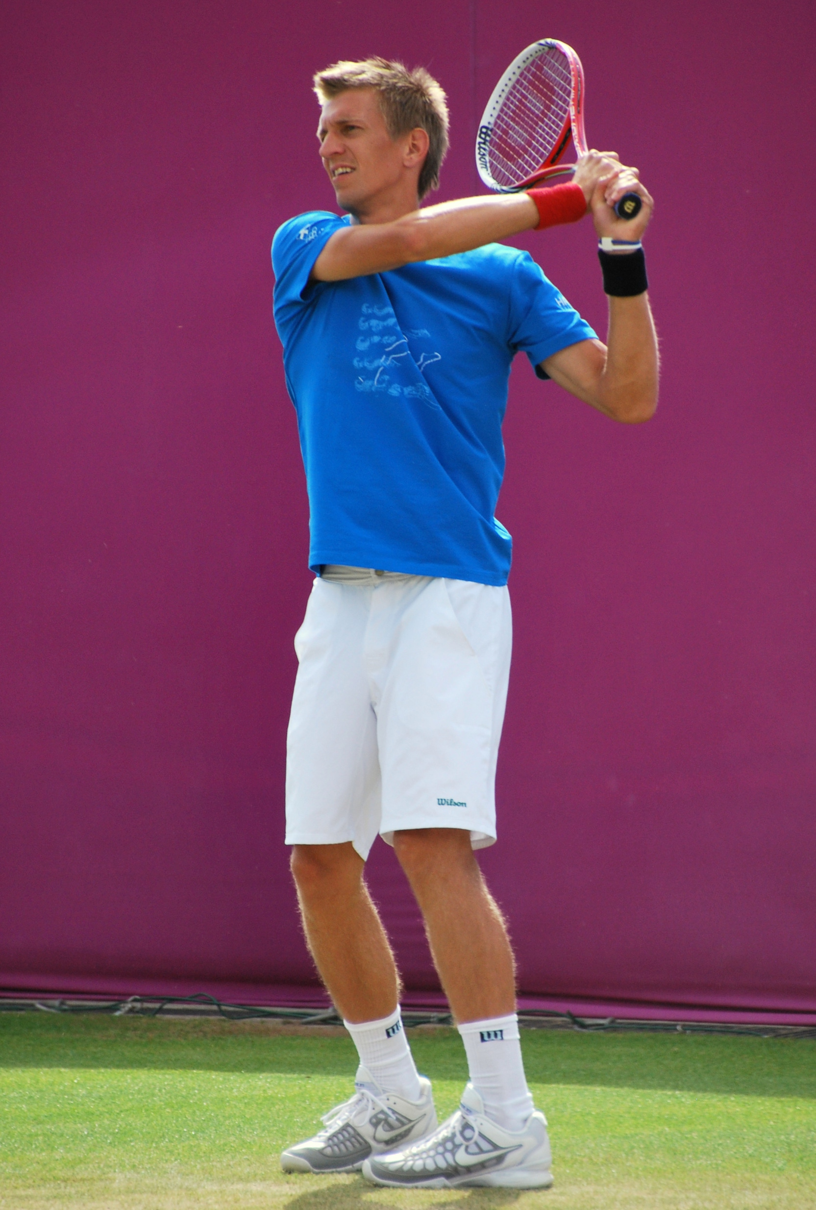 Jarkko Nieminen at the London Olympic Games in 2012.